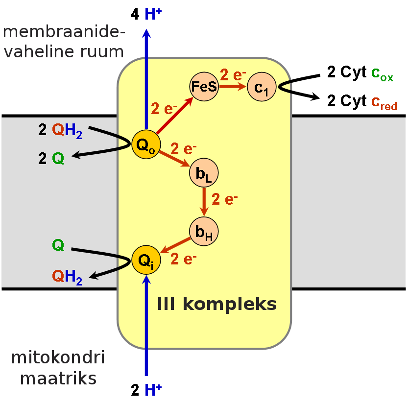 Electron transport chain complex III (coenzyme Q : cytochrome c — oxidoreductase, cytochrome bc1 complex)